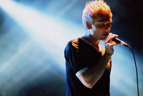 Stuart Murdoch in Concert LA Summer of 2003